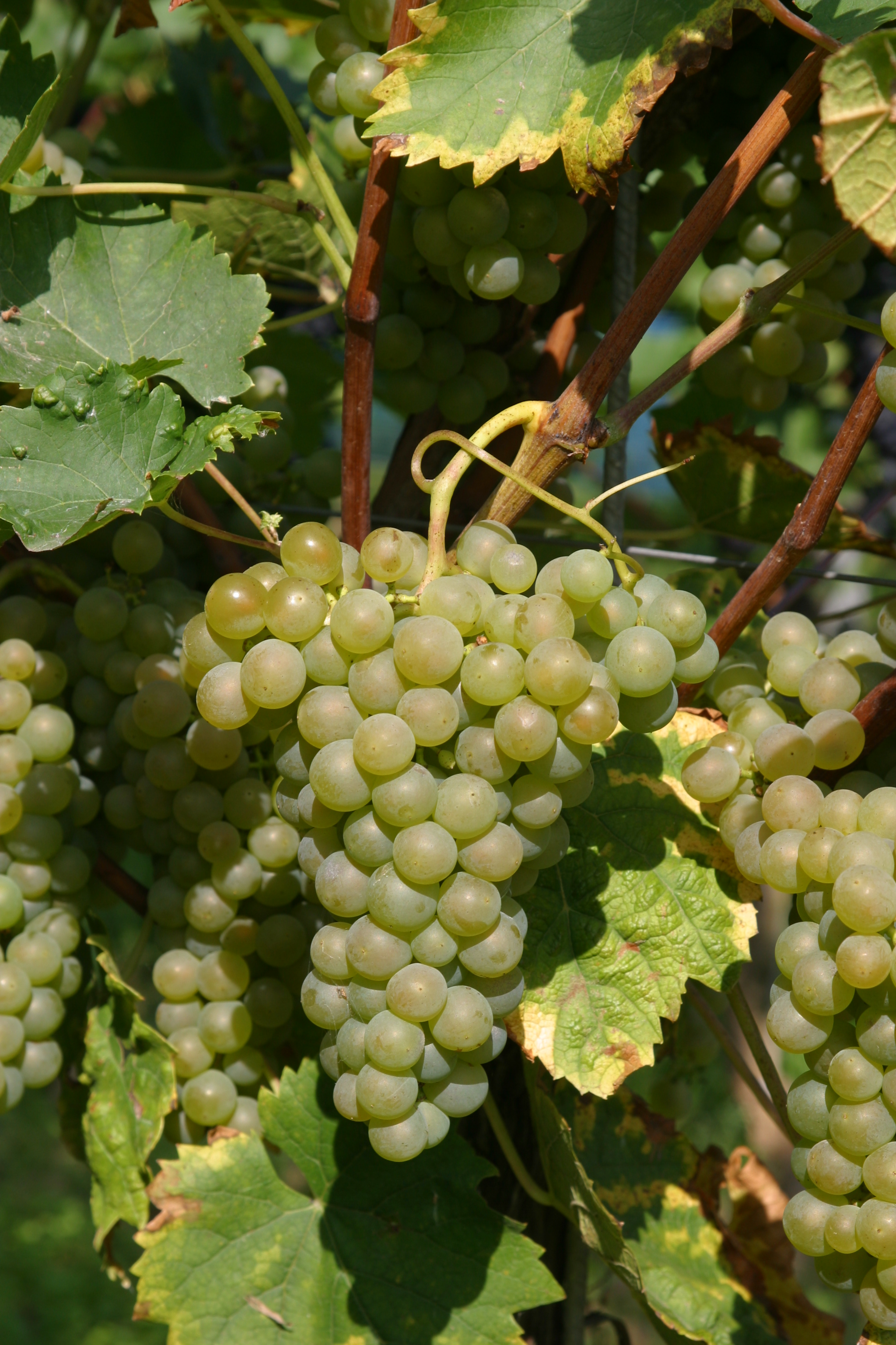 Leafs and grapes of the white grape variety Saphira